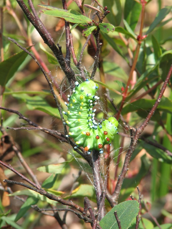 A Cecropia caterpillar starting its cocoon.